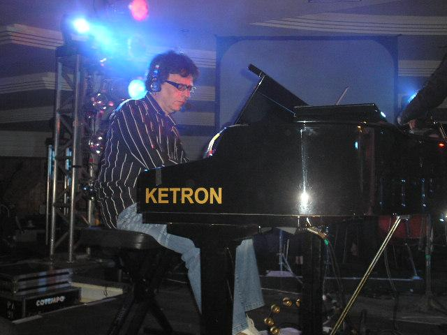 Cleberson Horsth - Roupa Nova.